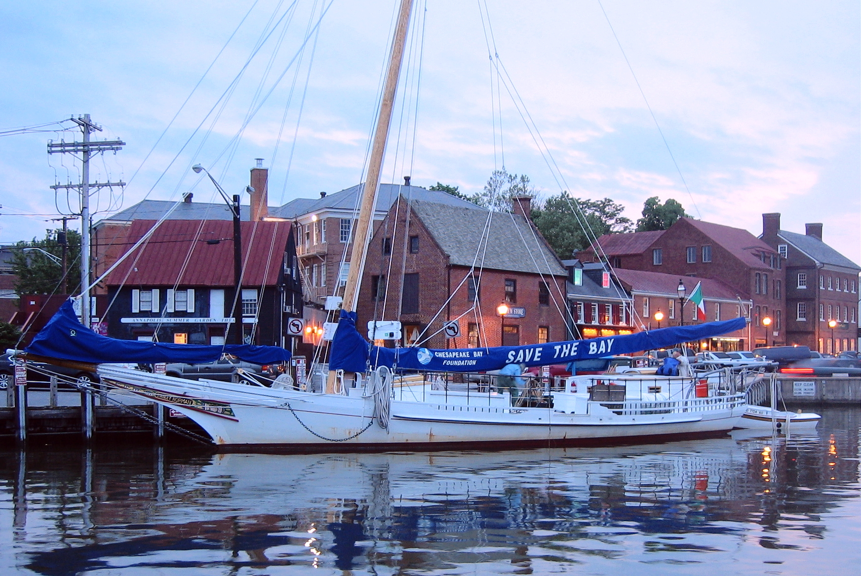 Built in 1902 to dredge oysters in the shallow waters of Chesapeake Bay, the skipjack serves as a floating classroom for thousands of kids each year.